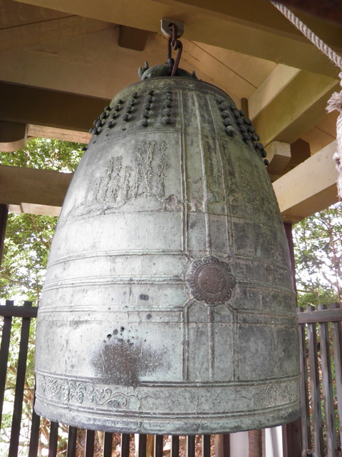 Yoshinosaburou